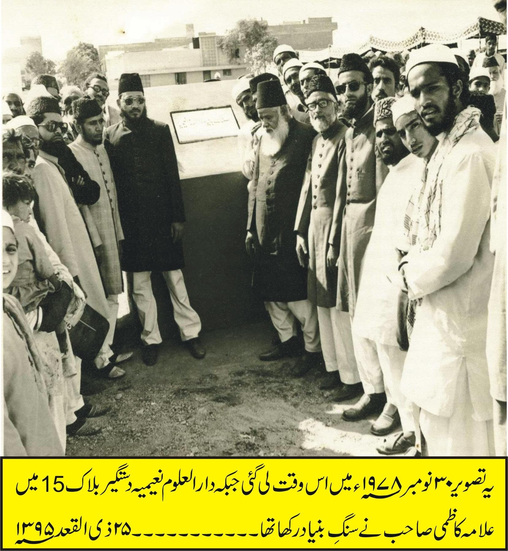 This picture was taken on November 30, 1978 on the stone laying cermony of Darul ulum Naeemia in the presence of Allama [Ahmad Saeed Kazmi] (Chief Guest), Mufti Justice [Syed Shujaat Ali Qadri], Mufti Muneeb ur Rehman, Molana Ather Naeemi, Molana Jameel Ahmed Naeemi and other prominent scholars of Ahle Sunnat wal Jamaat.